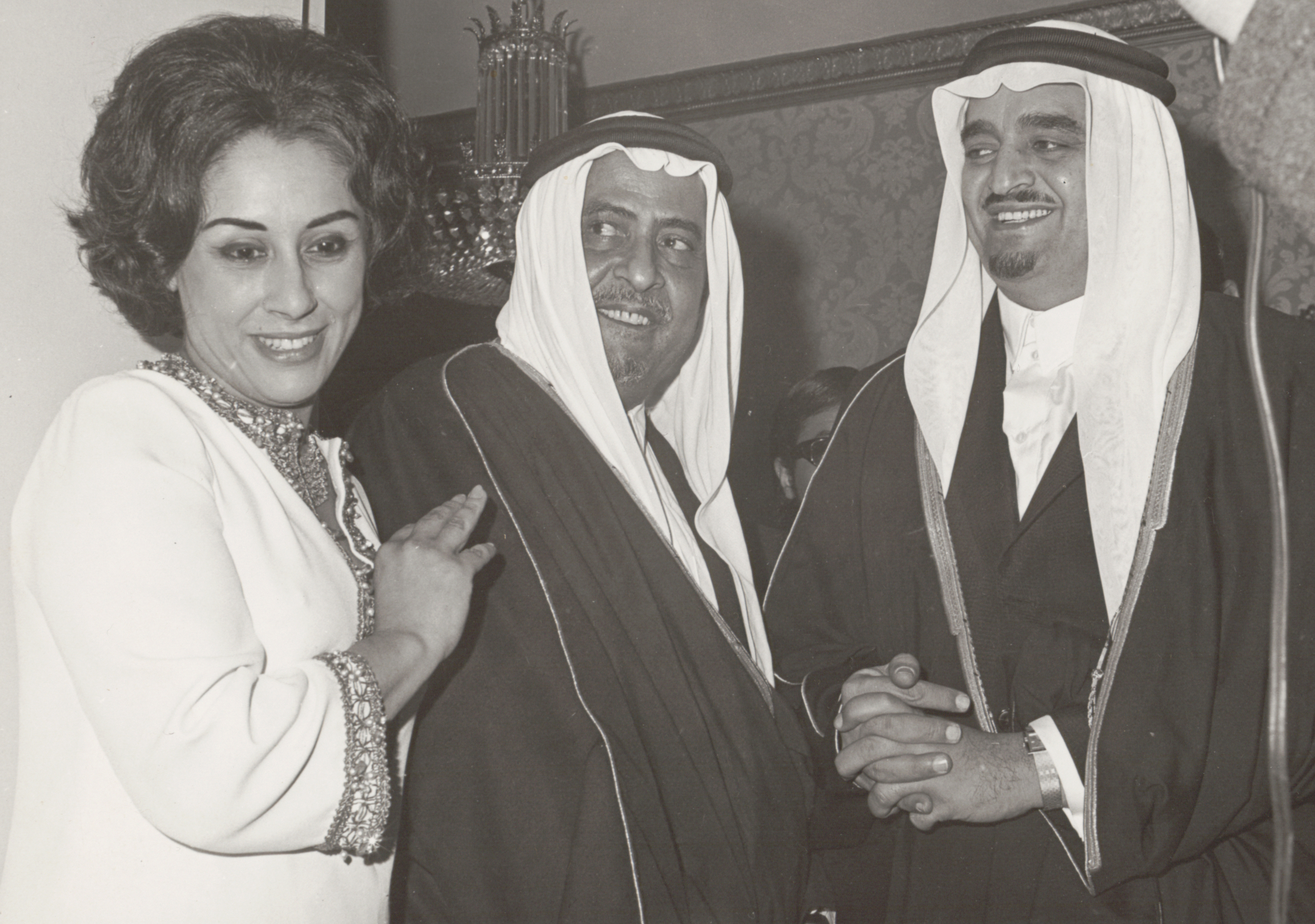 Ibrahim AlSowayel with his wife and King Fahd